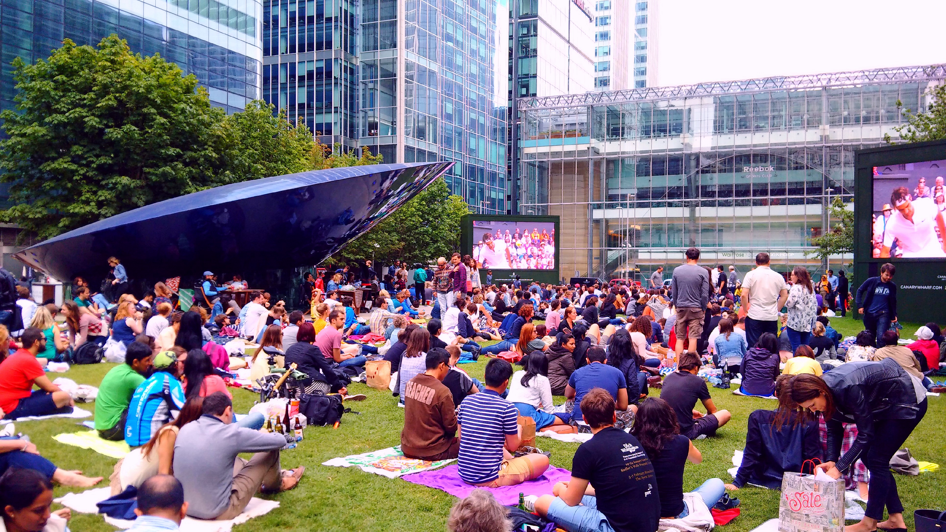 People watching Championships' broadcast outdoor in Canary Wharf: gentlemen's singles final N. Djokovic v R. Federer (Wimbledon 2015).